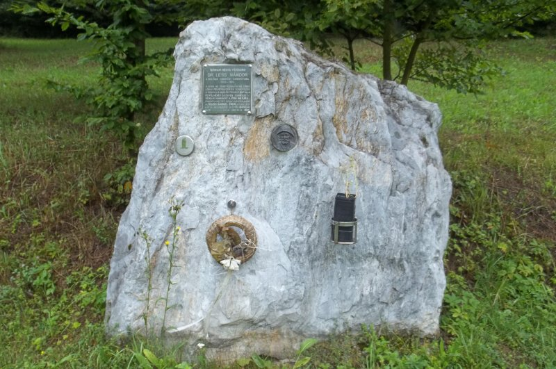 The Nándor Less memorial in Bükk-vidék, Hungary